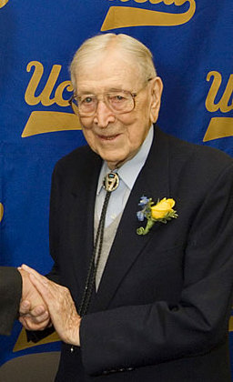 John Wooden at a ceremony on Oct. 14 2006, the coach’s 96th birthday, to rename the Reseda Post Office after the sports legend and long-time San Fernando Valley resident.